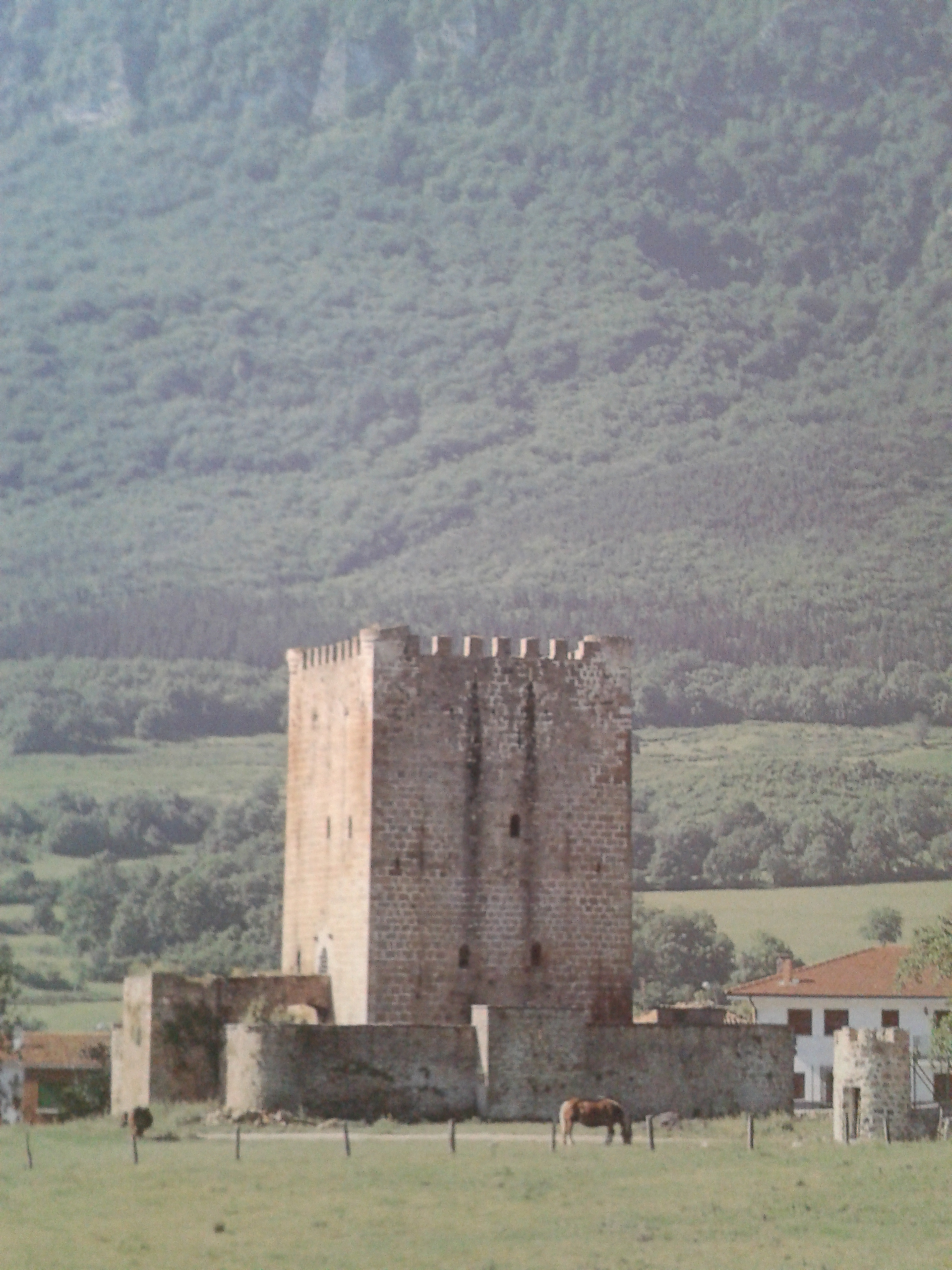 Tower in Lezana de Mena, Castile and Leon, Spain.